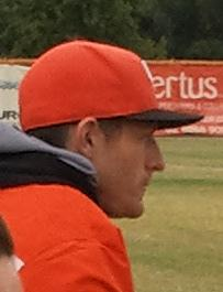 Michael Collins (baseball)) - 2013-01-19